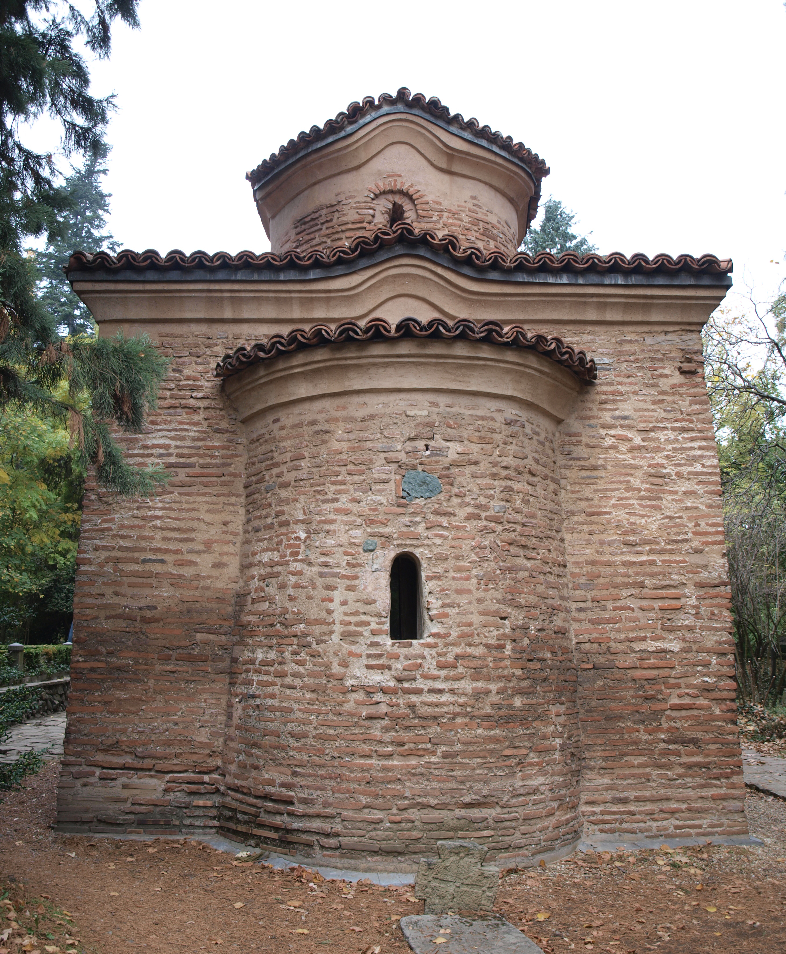 Boyana Church, Sofia